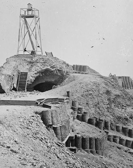 Beacon on parapet of Fort Sumter (Charleston County, South Carolina) - cropped This image is available from the United States Library of Congress's Prints and Photographs division under the digital ID cwpb.02304.This tag does not indicate the copyright status of the attached work. A normal copyright tag is still required. See Commons:Licensing for more information. This work is in the public domain in its country of origin and other countries and areas where the copyright term is the author's life plus 70 years or fewer. You must also include a United States public domain tag to indicate why this work is in the public domain in the United States. Note that a few countries have copyright terms longer than 70 years: Mexico has 100 years, Jamaica has 95 years, Colombia has 80 years, and Guatemala and Samoa have 75 years. This image may not be in the public domain in these countries, which moreover do not implement the rule of the shorter term. Côte d'Ivoire has a general copyright term of 99 years and Honduras has 75 years, but they do implement the rule of the shorter term. Copyright may extend on works created by French who died for France in World War II (more information), Russians who served in the Eastern Front of World War II (known as the Great Patriotic War in Russia) and posthumously rehabilitated victims of Soviet repressions (more information). This file has been identified as being free of known restrictions under copyright law, including all related and neighboring rights.